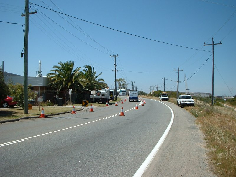 Traffic Control Diversion -- move the center of the road to allow a work-space along a kerb